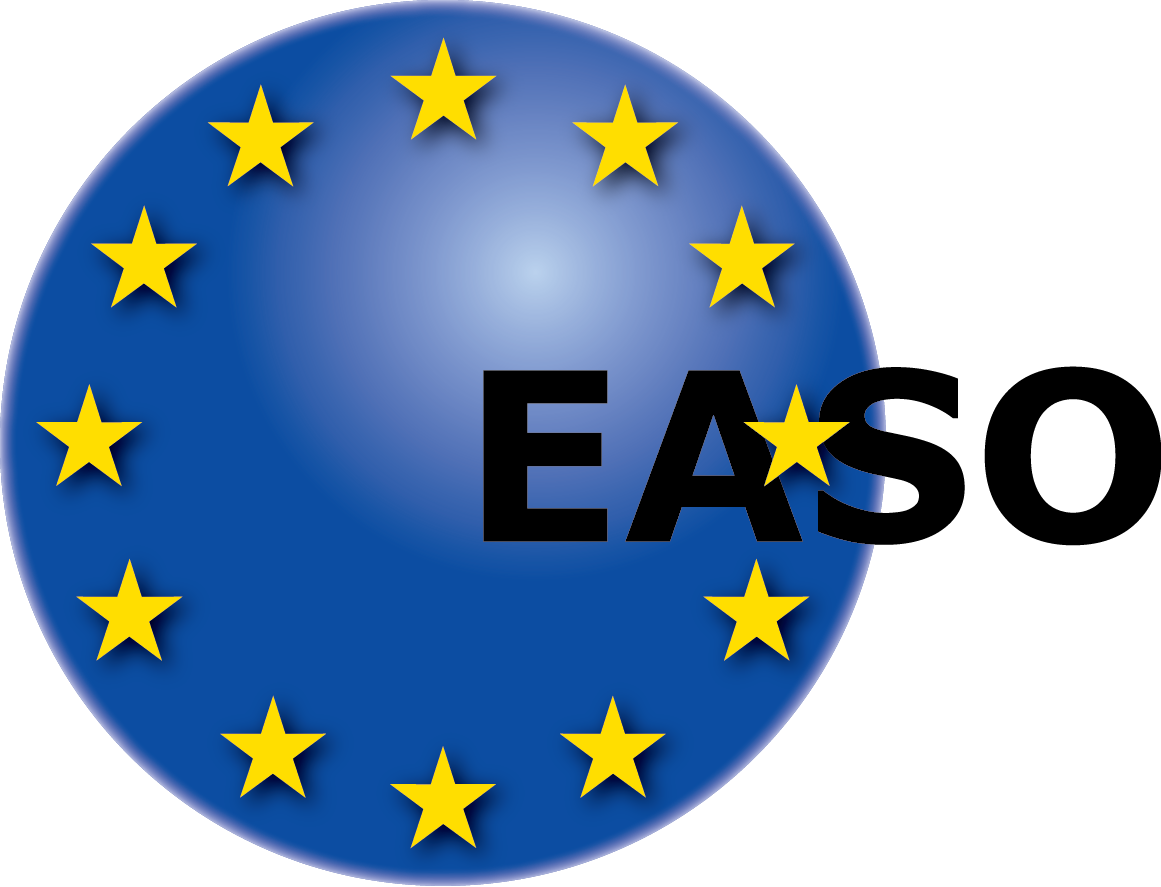 EASO official logo